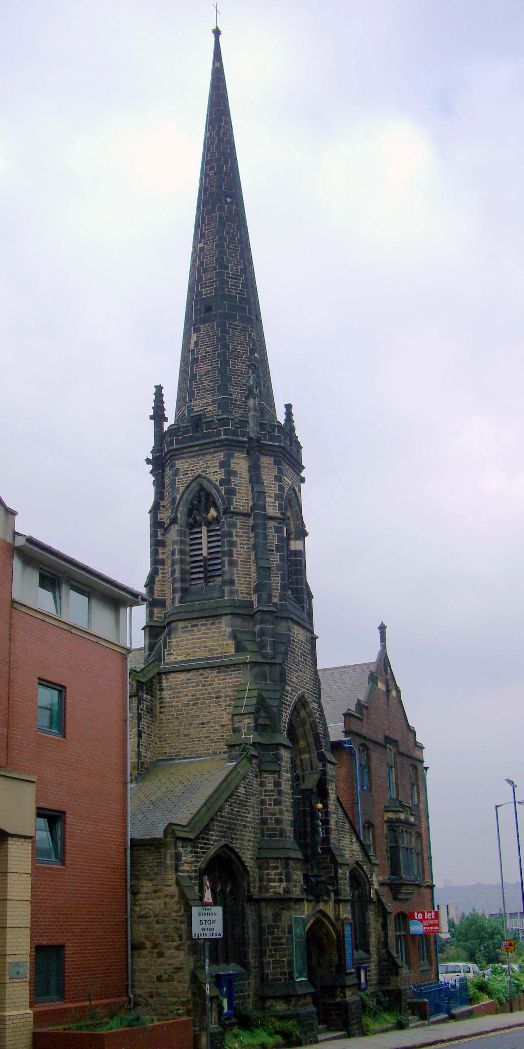 West tower and spire of St Matthew's parish church, Carver Street, Sheffield, South Yorkshire, seen from the northwest